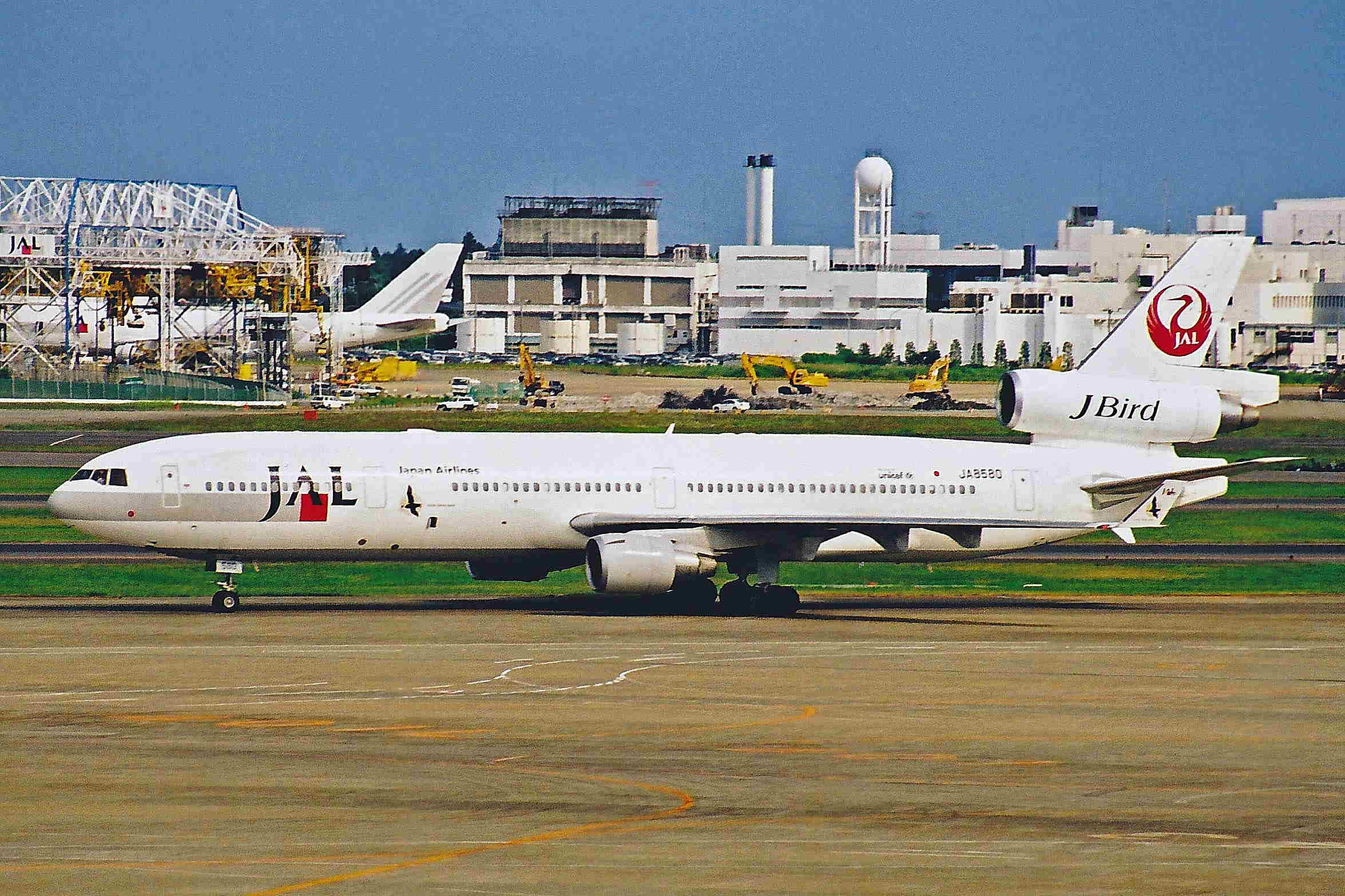 J-Bird 'Tufted Puffin'